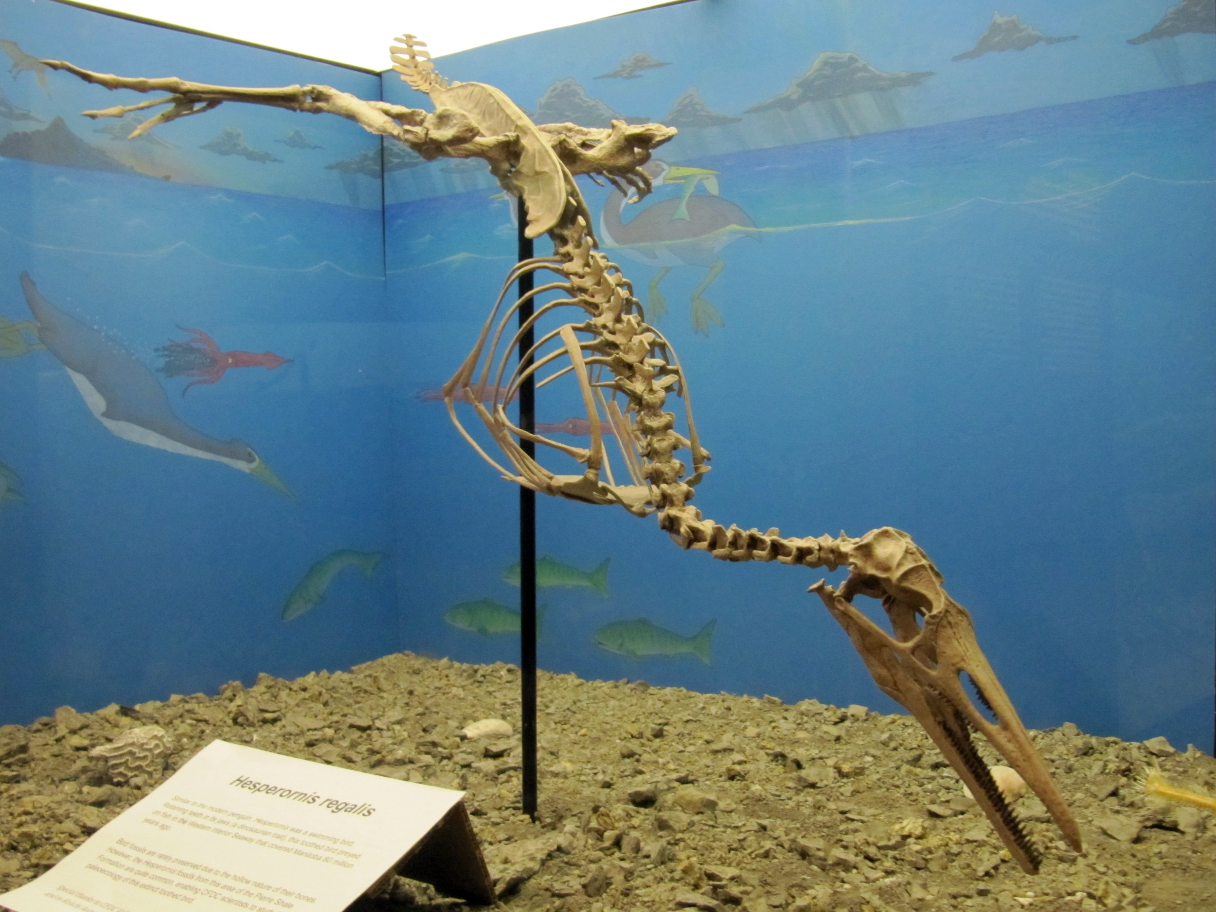 Hesperornis regalis skeleton at the Canadian Fossil Discovery Centre, Morden, MB.